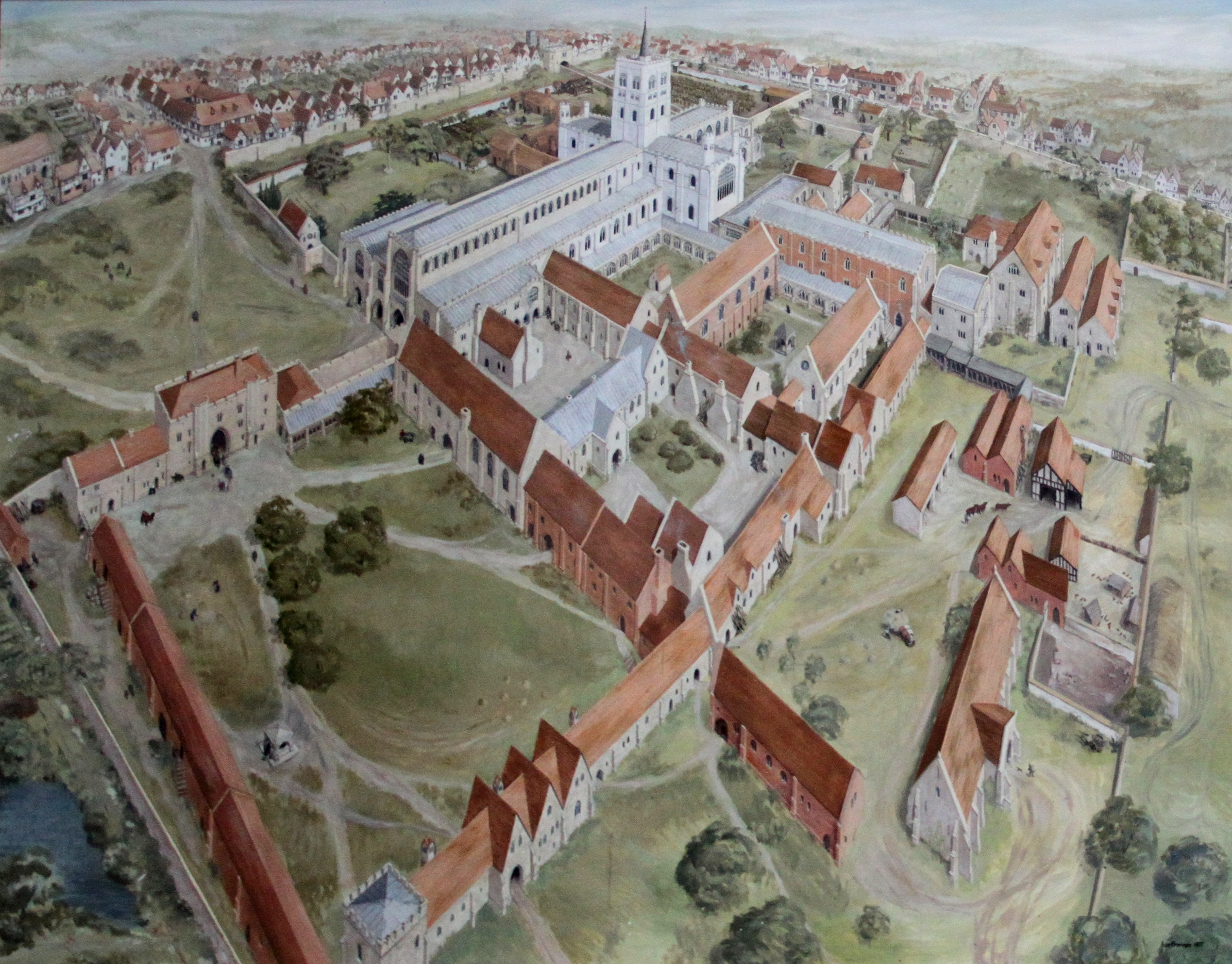 St Albans Abbey in the state before dissolution (painting in the nave of St Albans Cathedral).